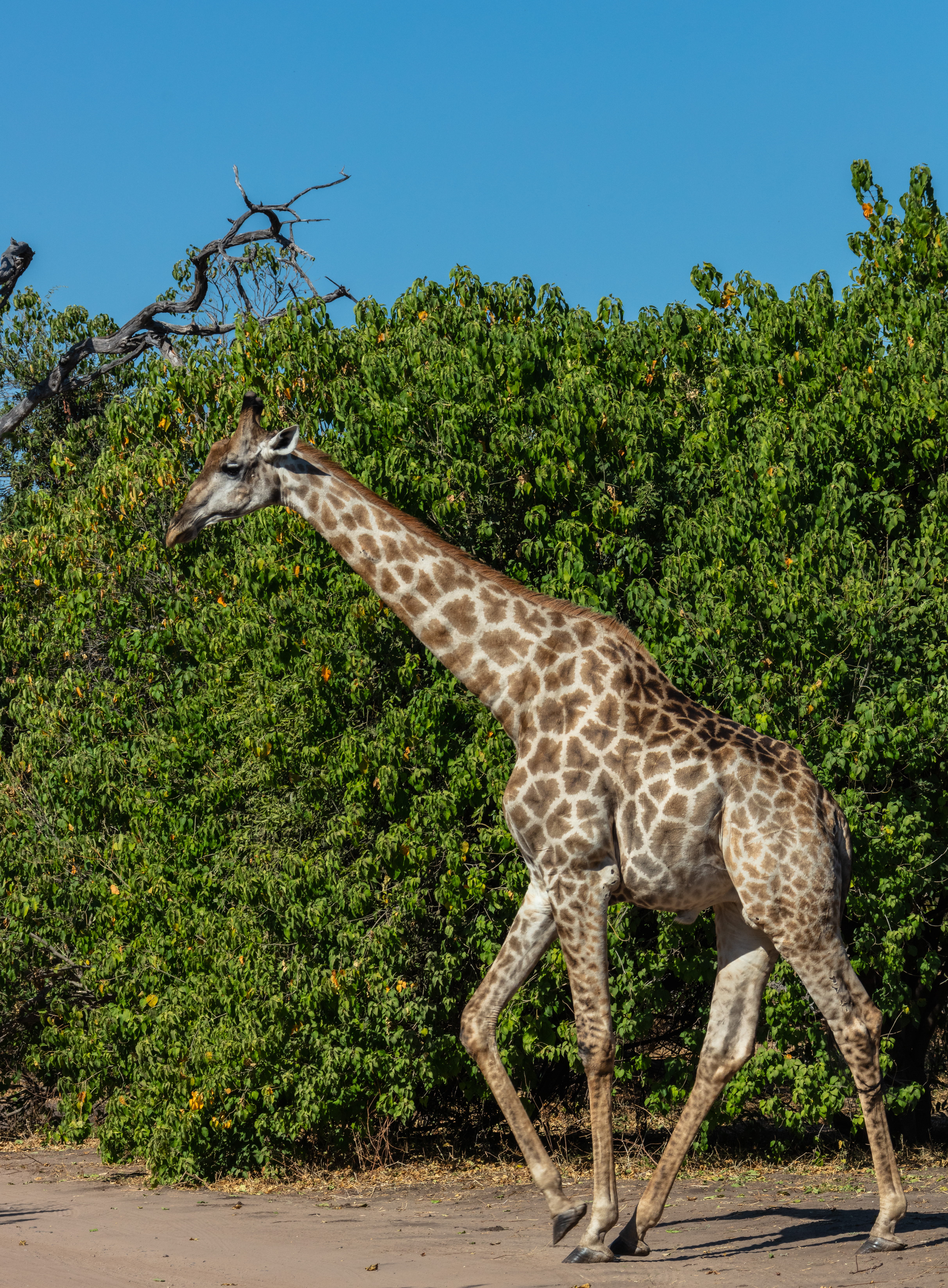 Northern giraffe (Giraffa camelopardalis), Chobe National Park, Botswana